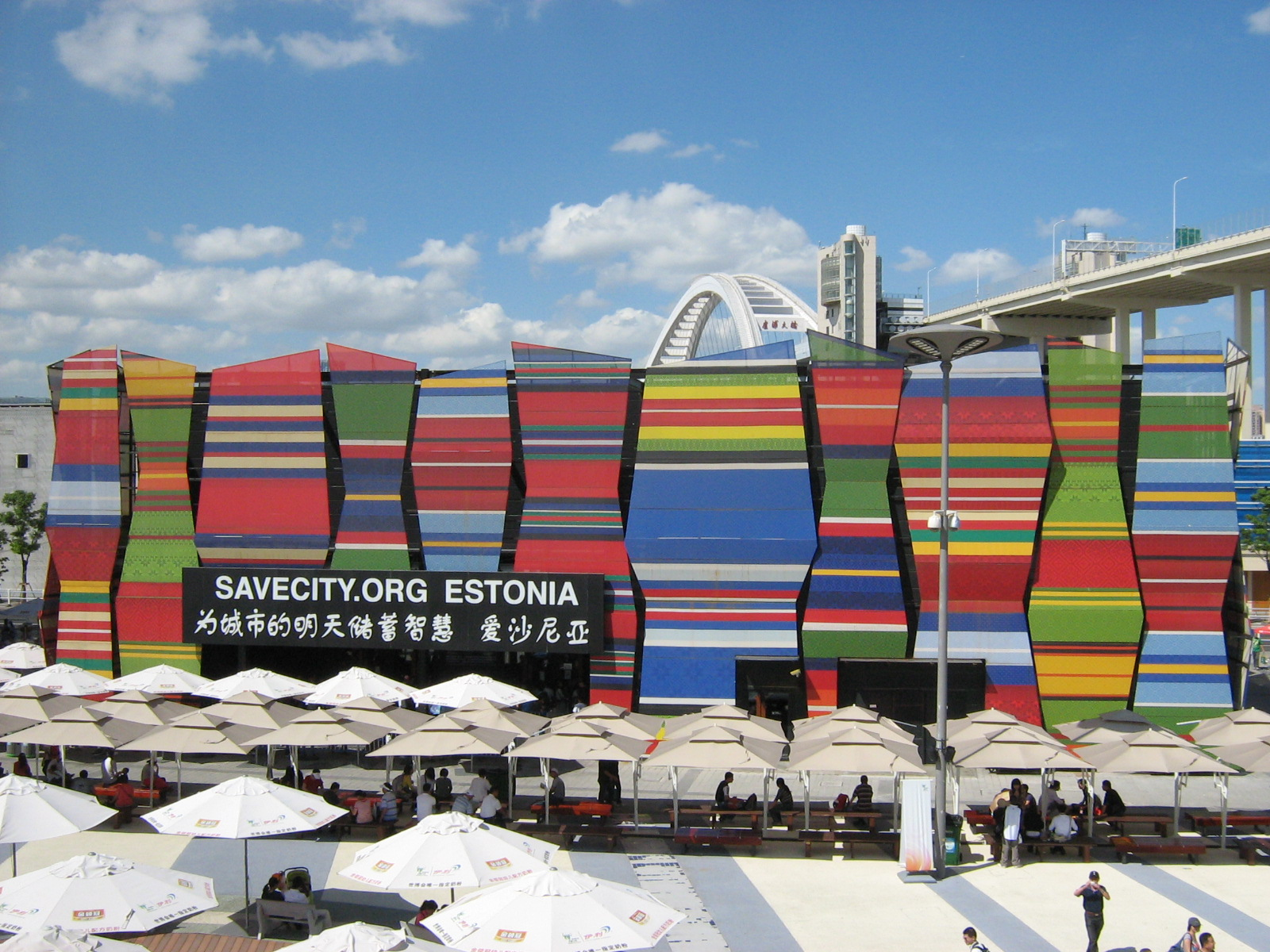 The Estonia Pavillion at 2010 Shanghai Expo